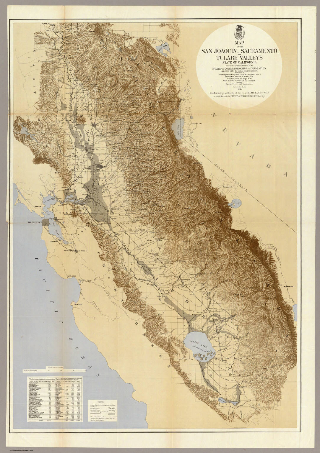 "Map of San Joaquin, Sacramento and Tulare Valleys, State of California, prepared under the direction of the Board of Commissioners on Irrigation, appointed under the Act of Congress approved March 3rd 1873, showing the country that may be irrigated and a provisional system of irrigation. Compiled from the Maps of the Geological Survey of California and from Special Survey and Examinations. 1873. Published by authority of the Hon. Secretary of War in the Office of the Chief of Engineers U.S. Army." "Scale: 1 inch to 12 miles." Locality: The Central Valley of California — which includes: Sacramento Valley — Sacramento-San Joaquin River Delta area, Metro-Sacramento region, and north to the southern Siskiyou Mountains. San Joaquin Valley — south of Sacramento-San Joaquin River Delta and Metro region to the Tehachapi Mountains. Tulare Valley — older term for the Tulare Basin of the lower San Joaquin Valley (showing former Tulare Lake). Dotted lines: hypothetical irrigation canals. The Sierra Nevada are on the east (right).